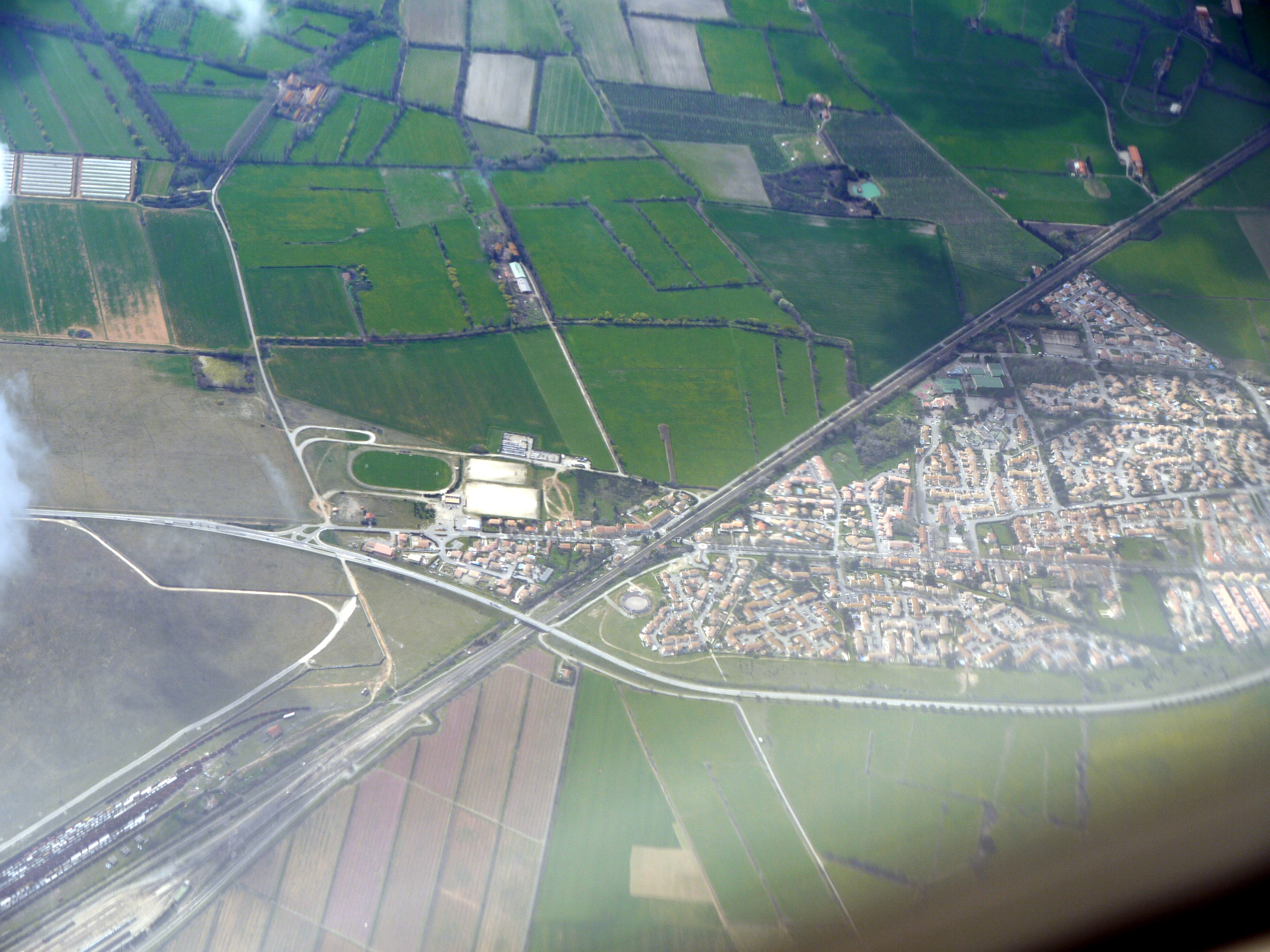 Entressen, photograph taken from the sky, on the fly line between Marseille and Stockholm.